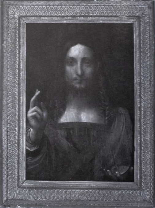 Cropped image of the Salvator Mundi as it appeared in a 2005 auction catalog.